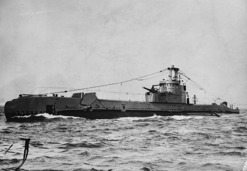 British S class submarine HMSM SANGUINE underway at sea